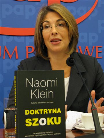 Naomi Klein (b. May 5, 1970), Canadian journalist, author and activist, best known for her book “No Logo”.